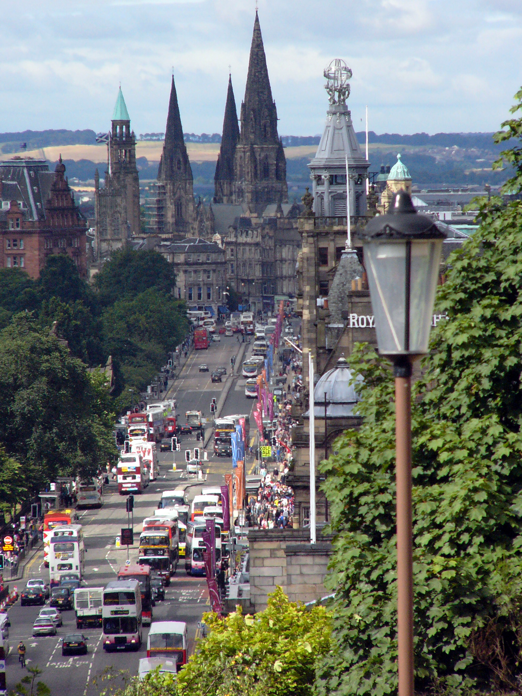 Edinburgh view from Calton Hill to Princes Street with St. Cuthbert's Church and St. John's Church.